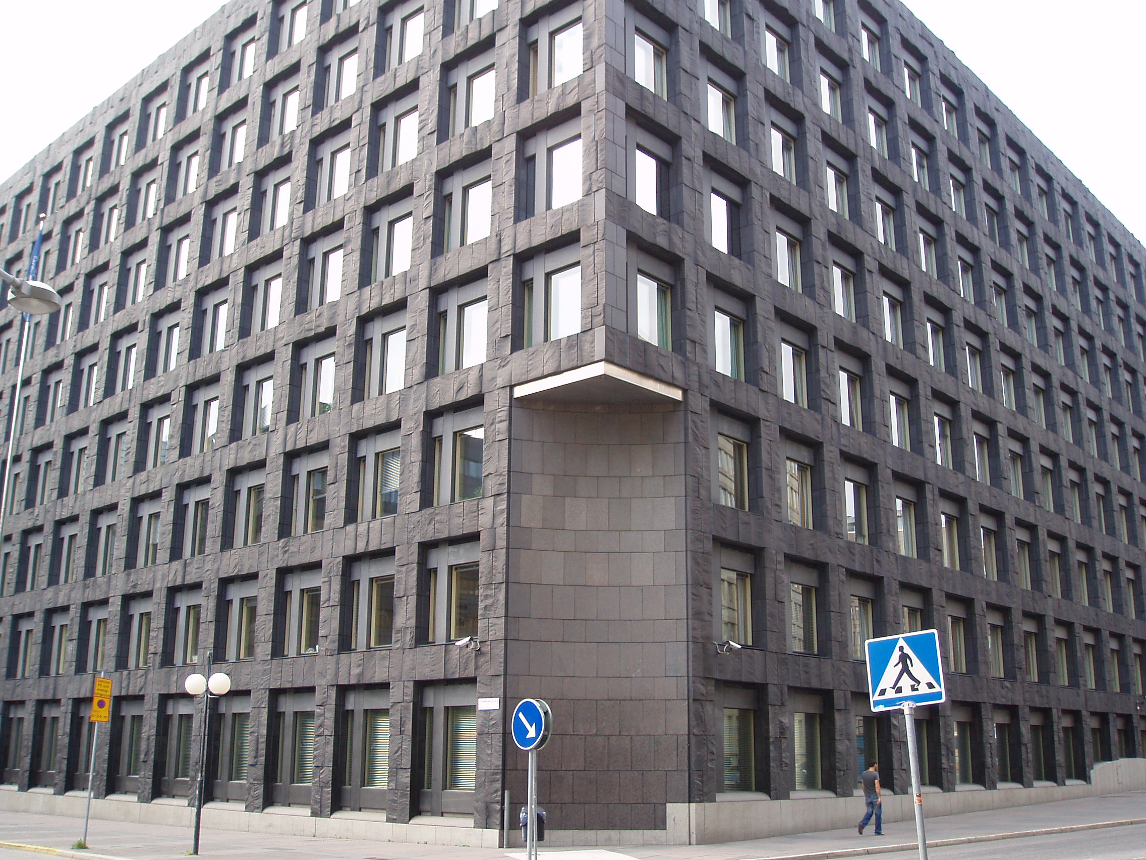 Riksbankshuset, the main building of Sveriges Riksbank, located at Brunkebergstorg in Stockholm